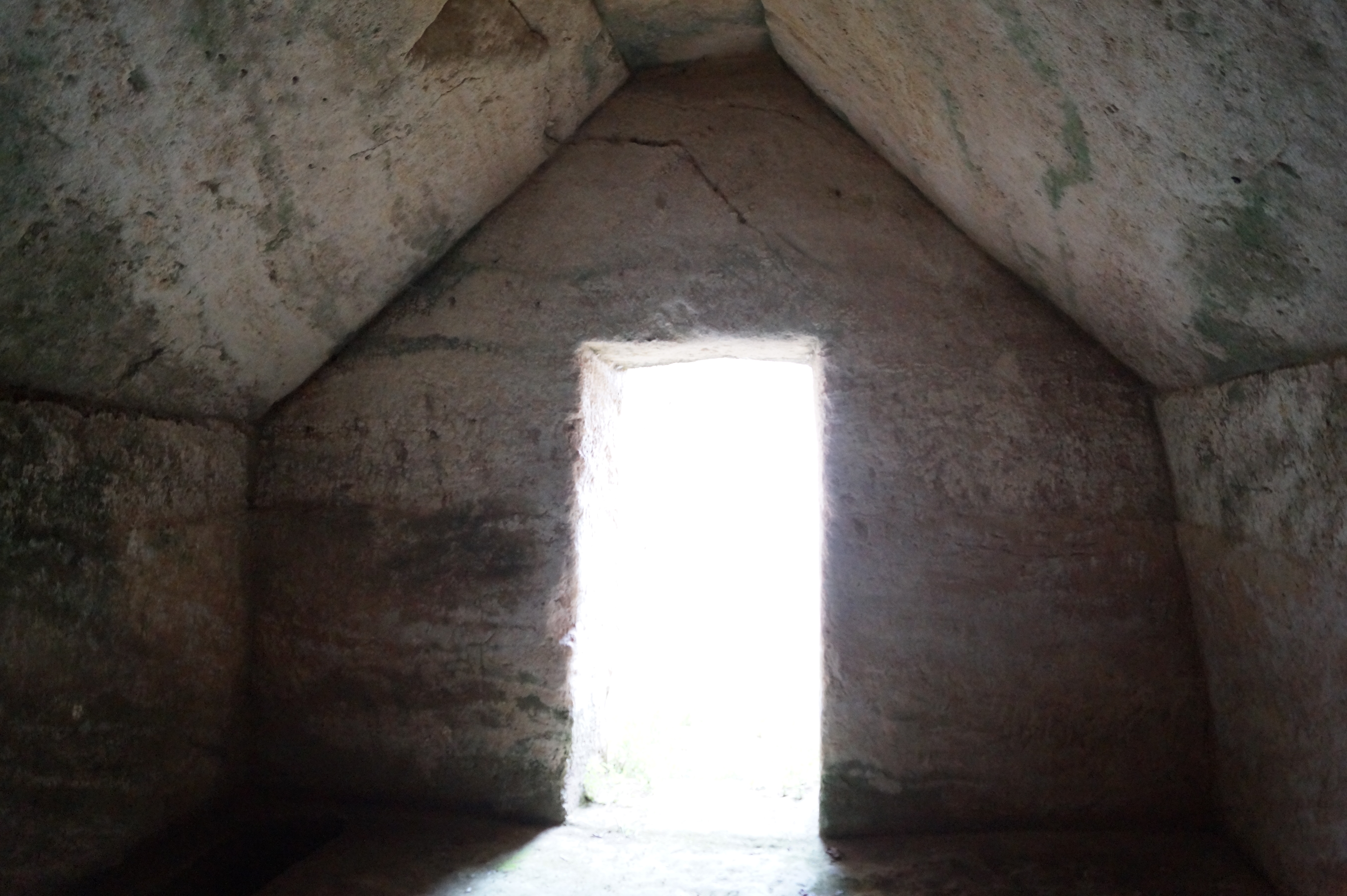 Aidonia, Corinthia, Greece: Mycenaean cemetery of Aidonia, burial chamber of tomb 9.